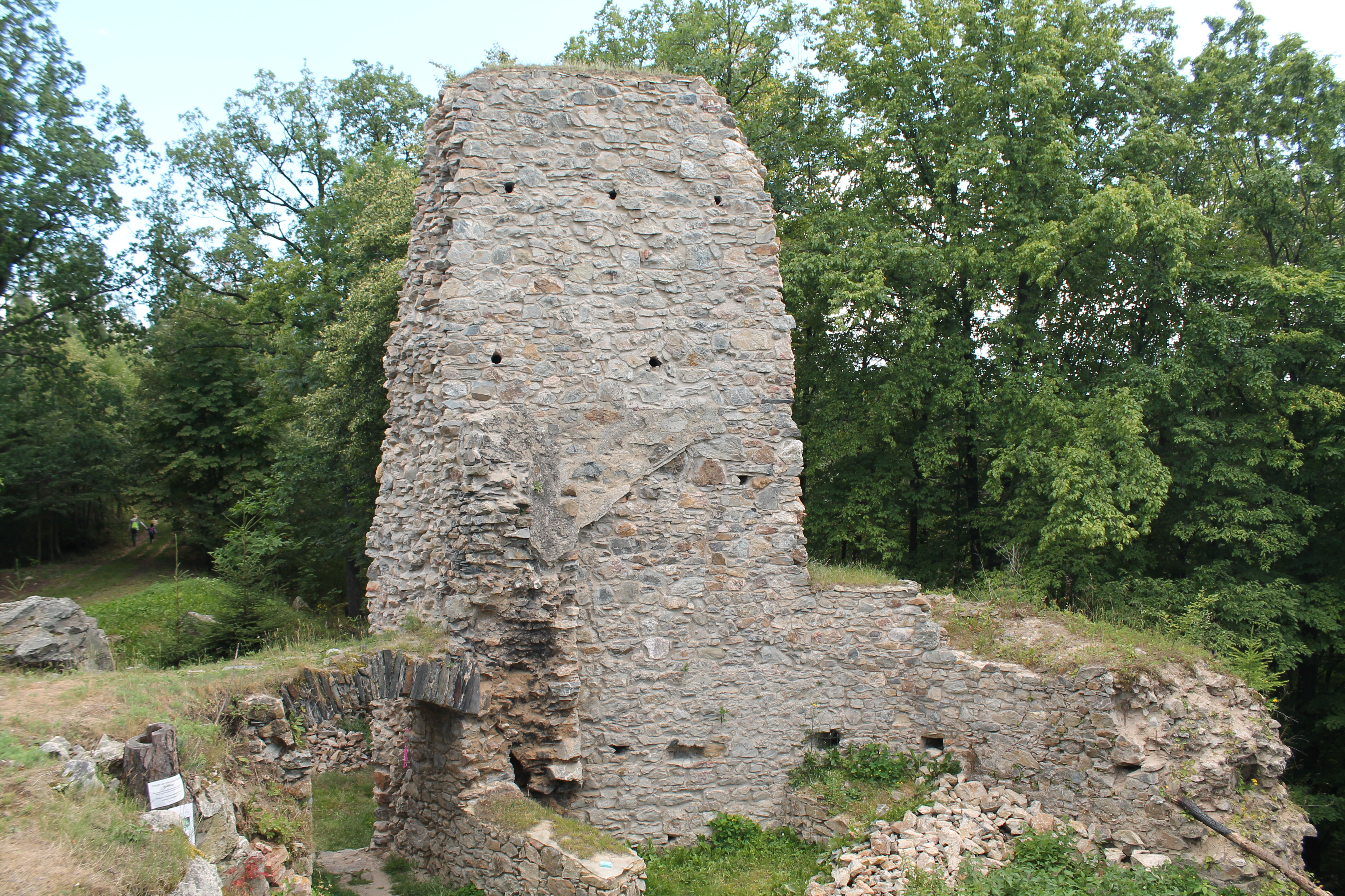 Rabštejn Castle, Rabštejnská Lhota, Chrudim District, Czech Republic